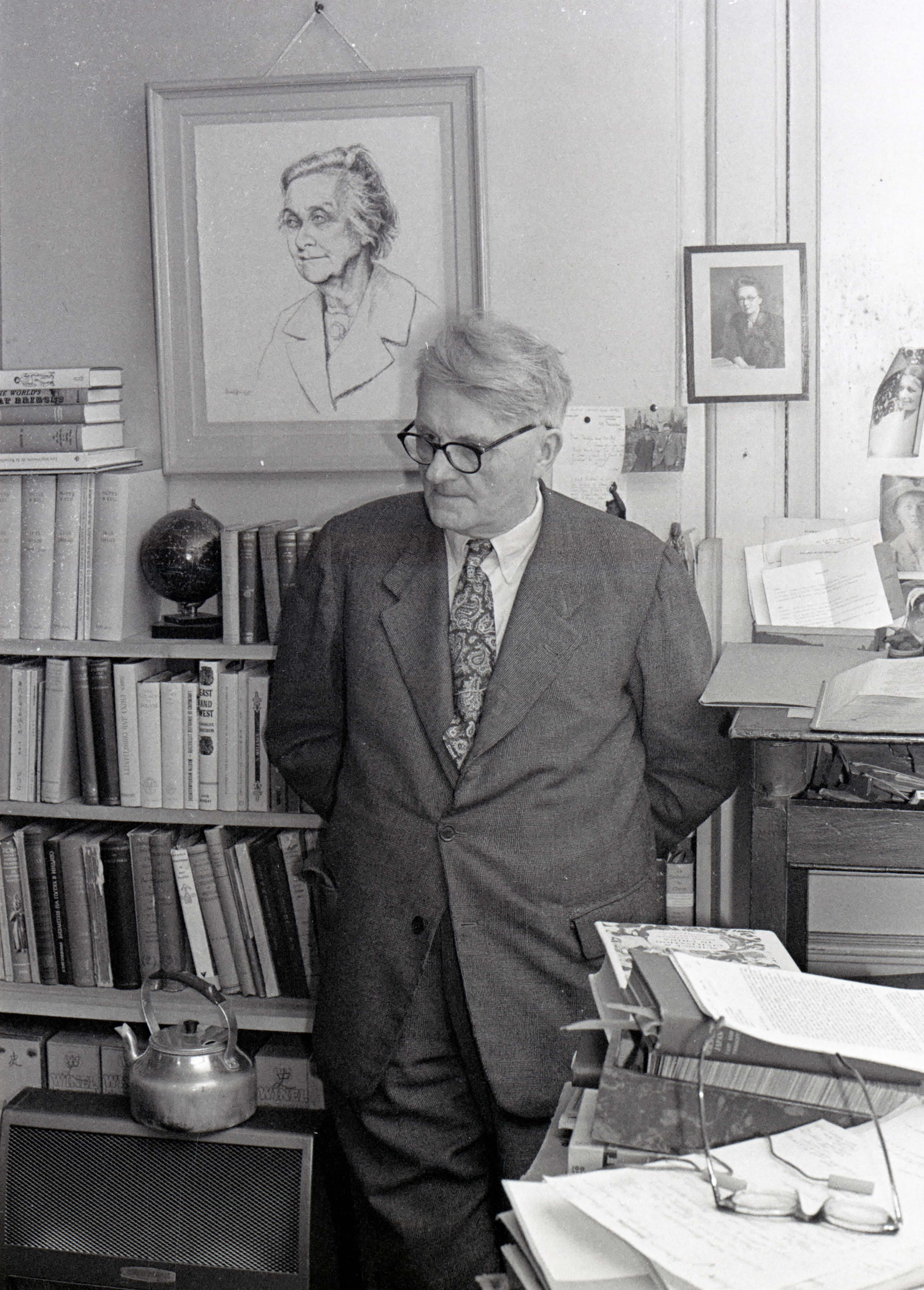 Joseph Needham in his office in Cauis College Cambridge 1965